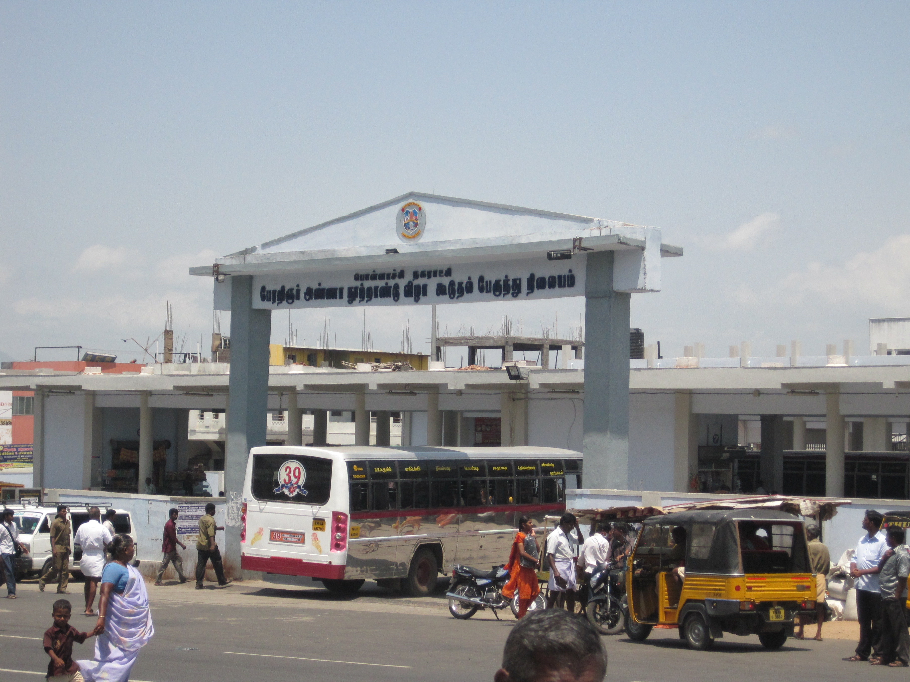 Bus stand in pollachi front view